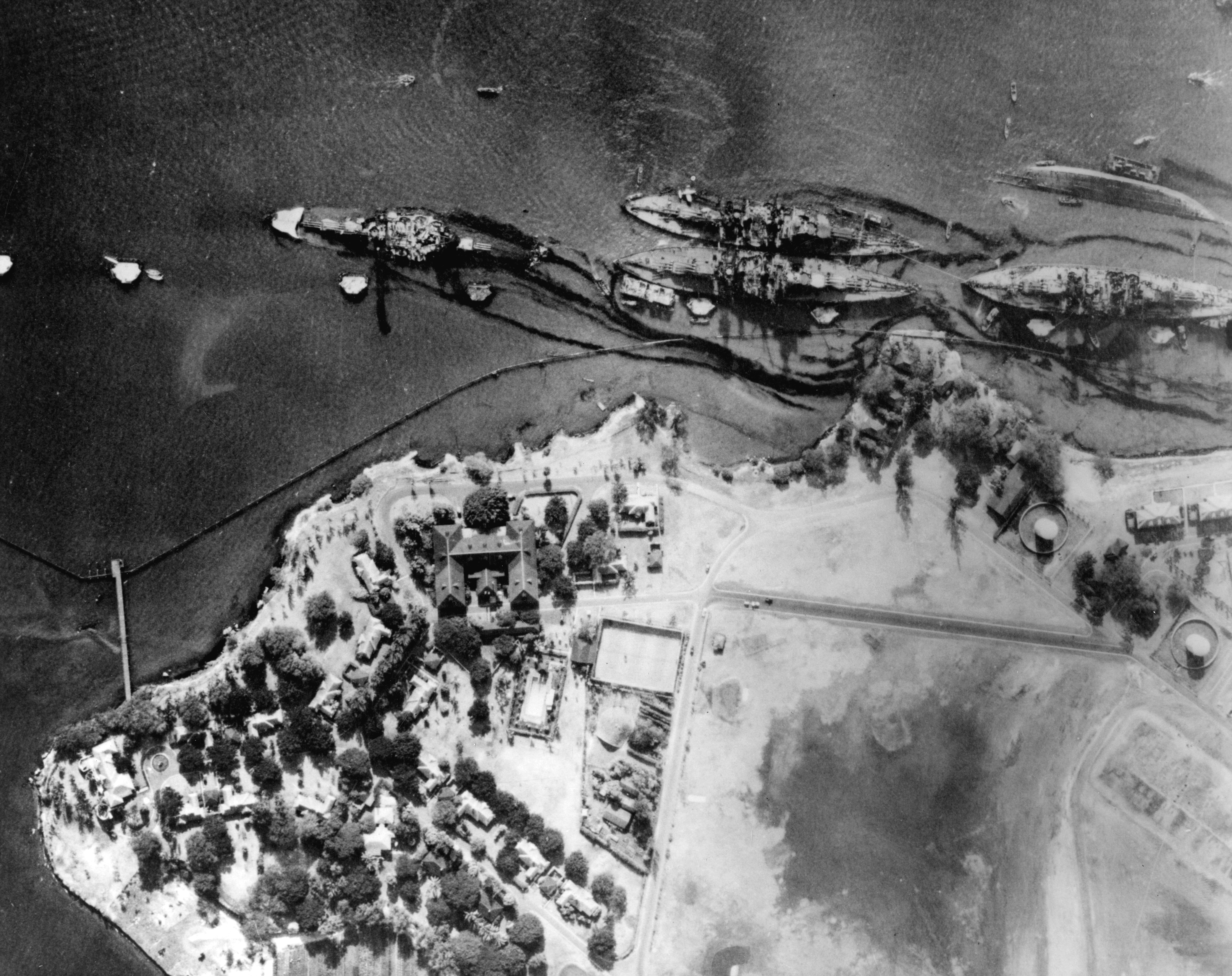 Aerial view of "Battleship Row" moorings at Pearl Harbor on the southern side of Ford Island, 10 December 1941, showing damage from the Japanese raid three days earlier. Ships seen are (from left to right): USS Arizona, burned out and sunk, with oil streaming from her bunkers; USS Tennessee with USS West Virginia sunk alongside; and USS Maryland with USS Oklahomav capsized alongside.